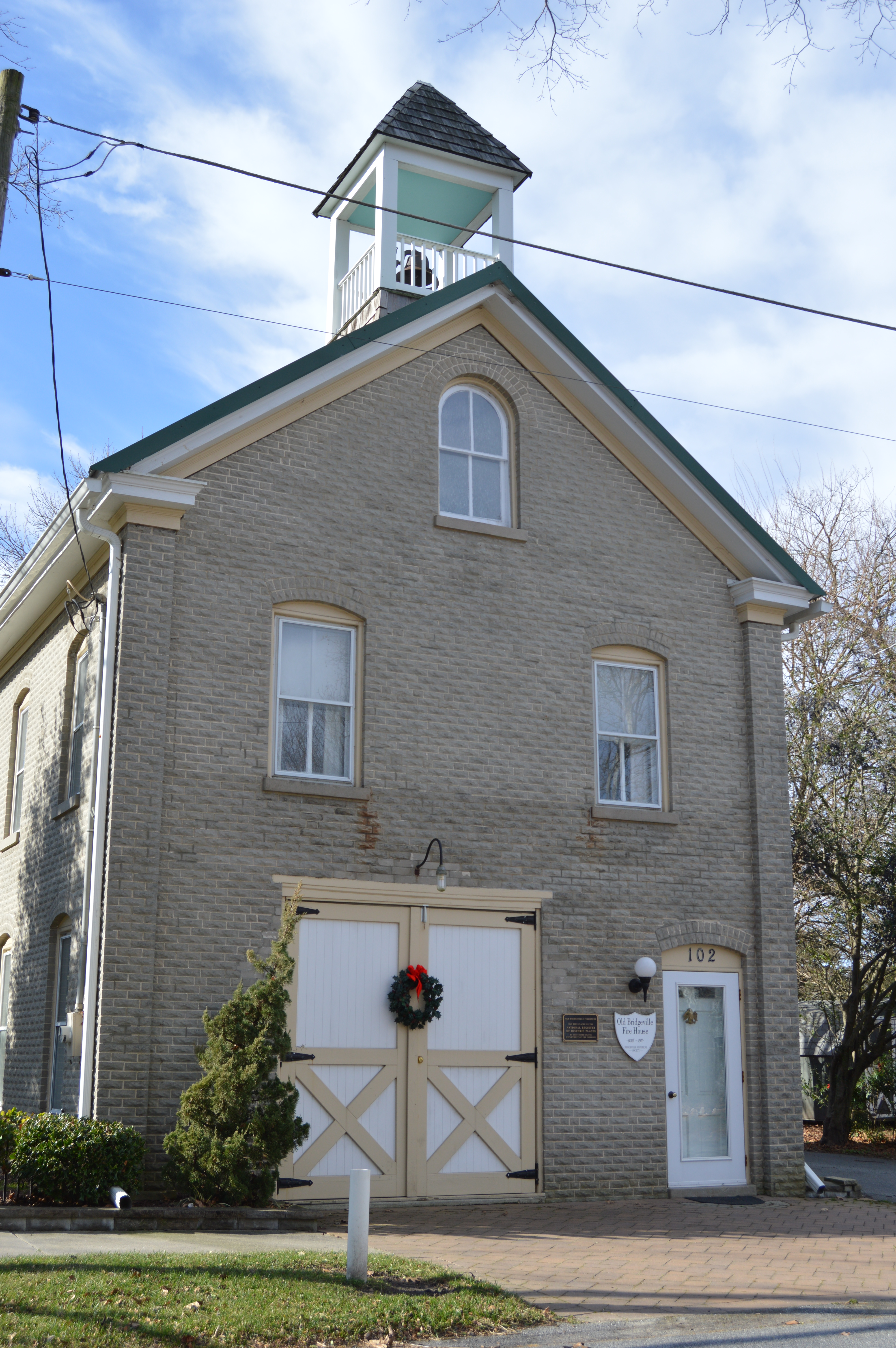 Front of the Old Bridgeville Fire House, located at 102 William Street in Seaford, Delaware, United States. Built in 1911, it is listed on the National Register of Historic Places.